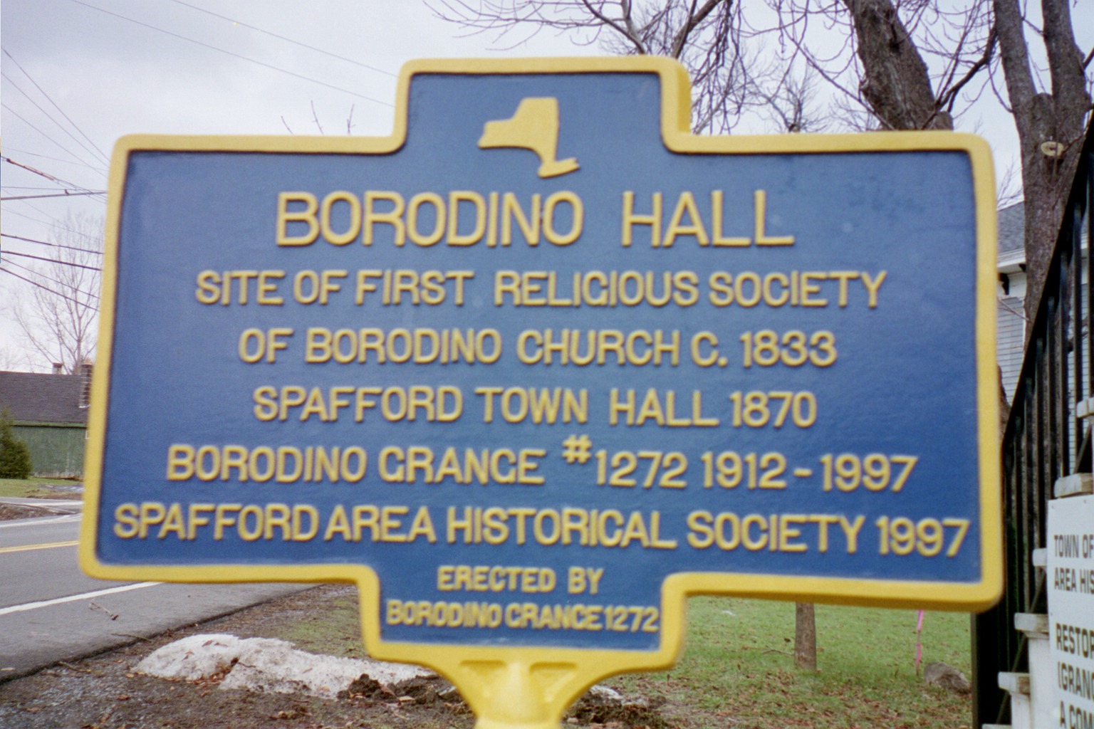 Historic Marker outside Borodino Hall, hamlet of Borodino, Town of Spafford, NY